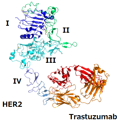 Structure of HER2(ErbB2) extracellular domain and trastuzumab(anti-HER2 antibody) complex. This file is created from PDB file IN8Z.